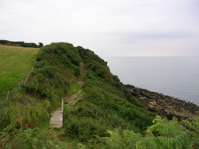 Anglesey Coastal Path. A section of the Anglesey Coastal Path above Borth Wen to the north of Benllech. Taken from SH519839